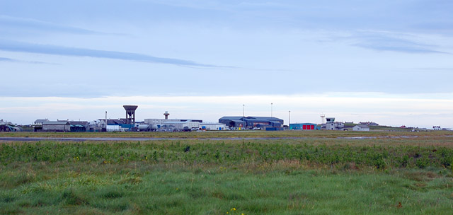 Benbecula airport buildings, Outer Hebrides, Scotland